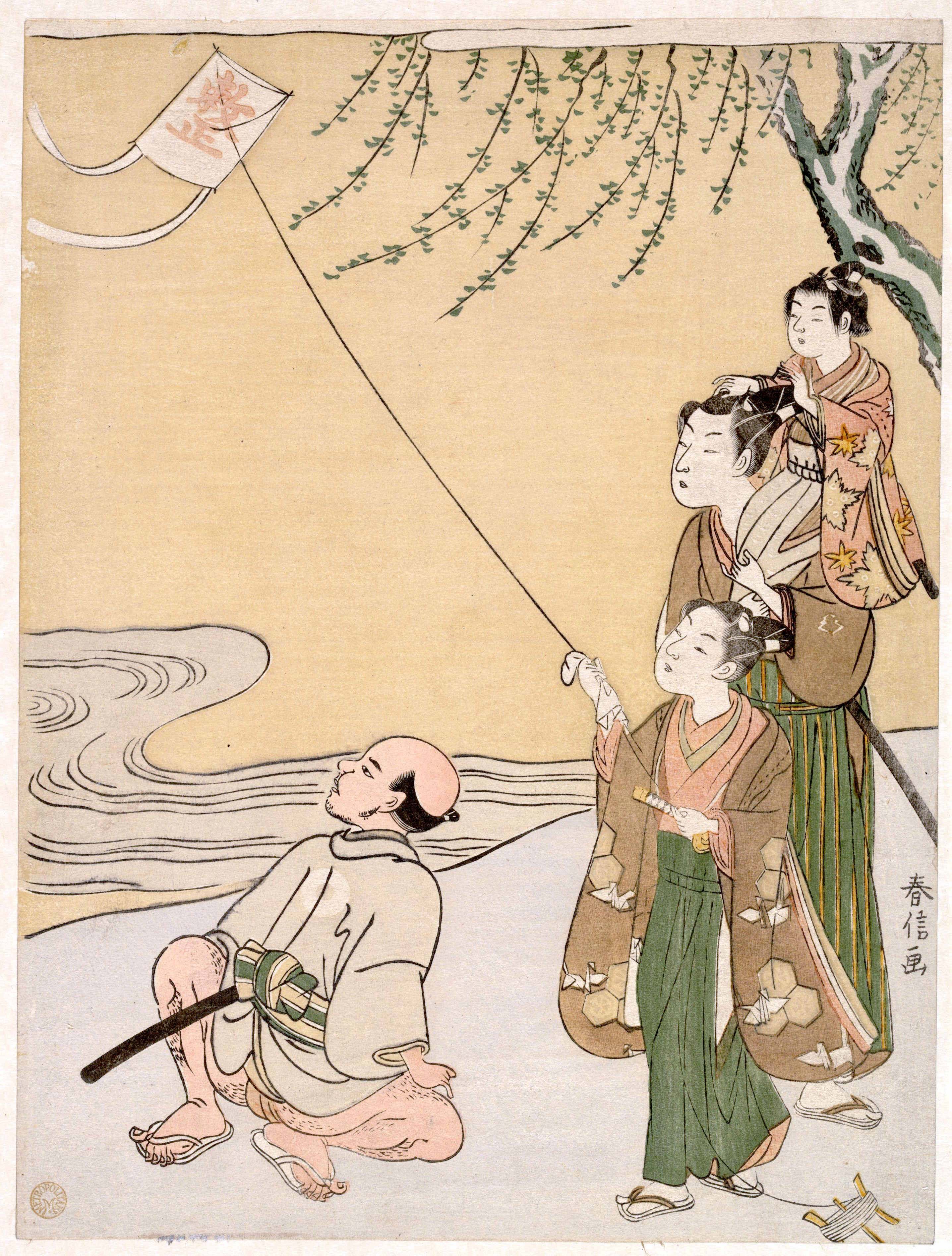 Woodblock print of kite flying by Japanese artist Suzuki Harunobu (鈴木 春信) from the Edo period.